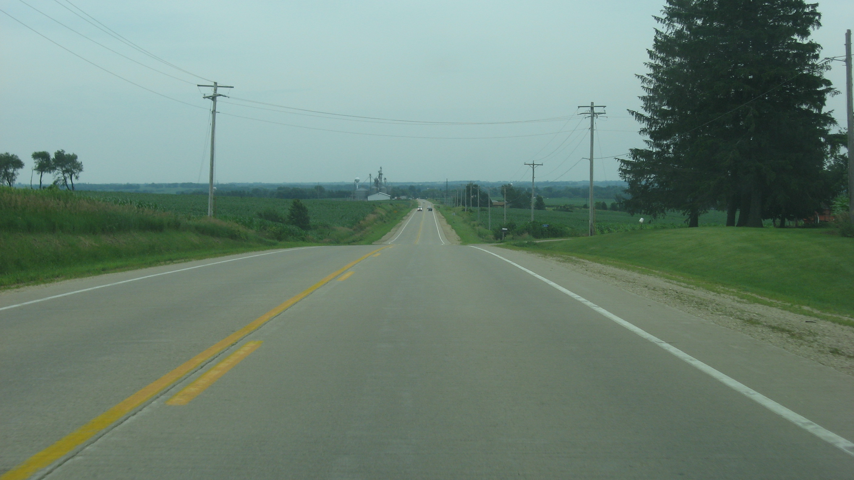 Looking east along Wisconsin Highway 11 two miles west of the village of Benton in the town of Benton, within Lafayette County, Wisconsin, United States.